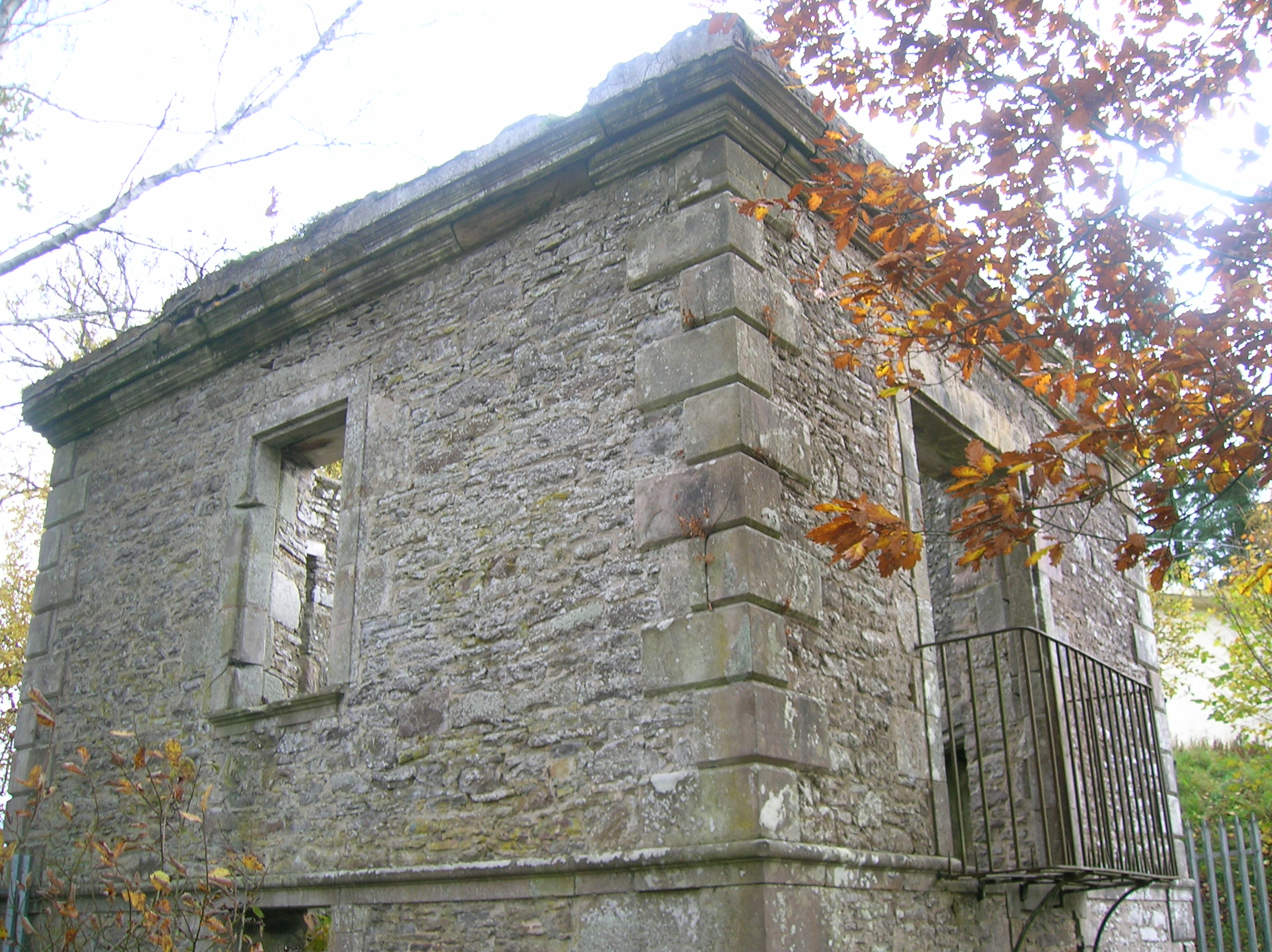 The Bonnington Pavilion or Hall of mirrors at Corra Linn, New Lanark, Falls of the clyde, Scotland.